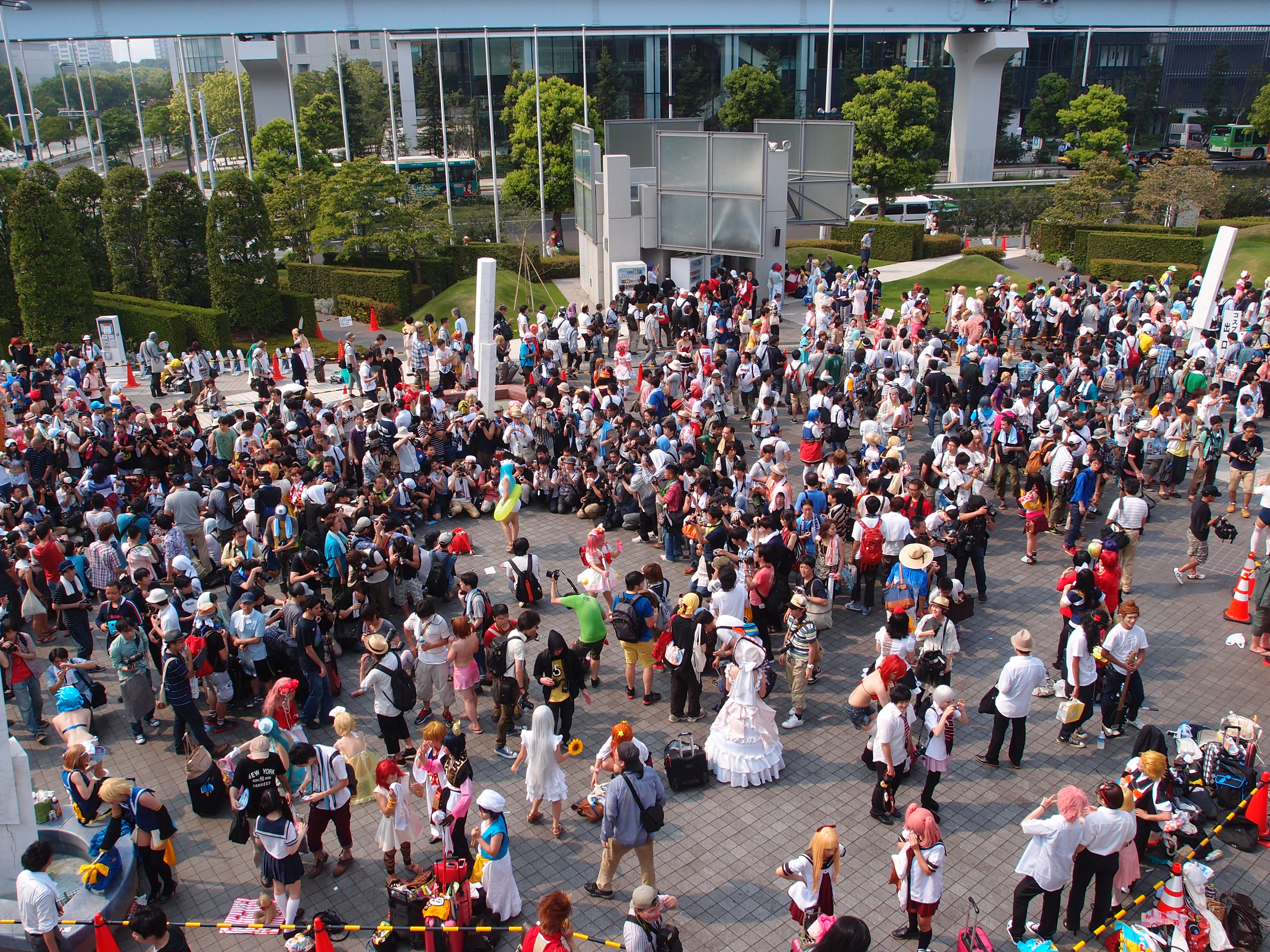 Cosplay @ Comiket 84 - Summer 2013 @ Tokyo Big Sight